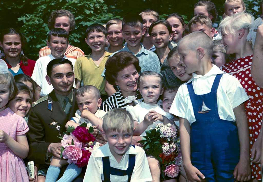 “Cosmonauts Valentina Tereshkova and Valery Bykovsky among children”. Soviet pilot-cosmonauts Valentina Tereshkova and Valery Bykovsky among children